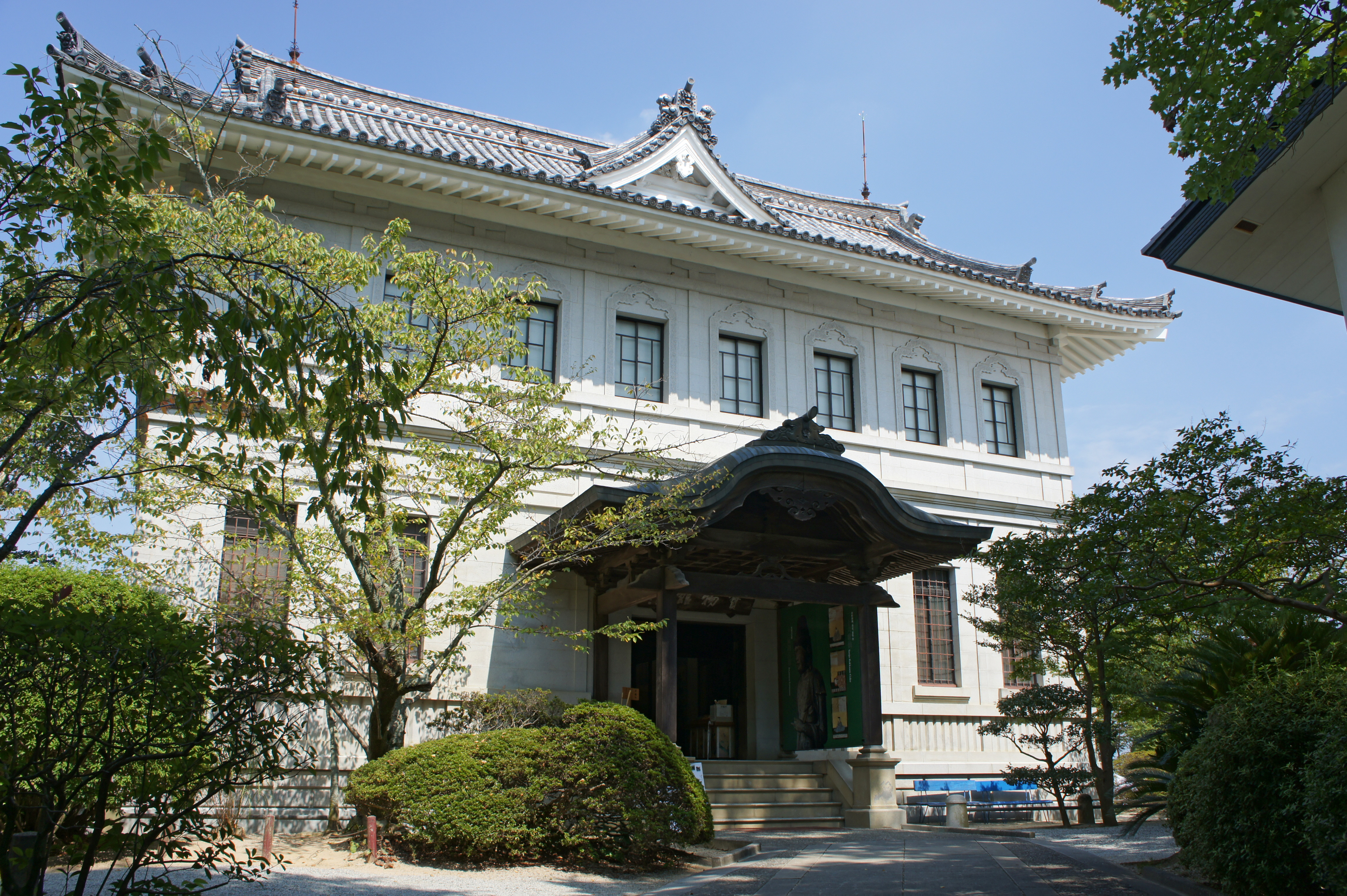 Kotohira Gu in Kotohira, Kagawa prefecture, Japan.